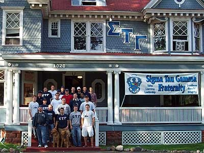 Collegiate members of the Gamma Chi chapter at Michigan Technological University stand in front of their chapter house.